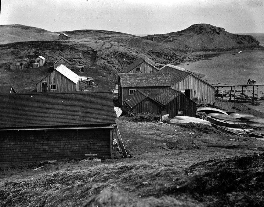 From John Cobb field notebook: Union Fish Co. station, Pauloff, Sannak Island, Alaska, showing salt houses and store. May 1913 Subjects (LCSH): Union Fish Company; Cod fisheries--Alaska--Pavlof Harbor; Company stores--Alaska--Pavlof Harbor